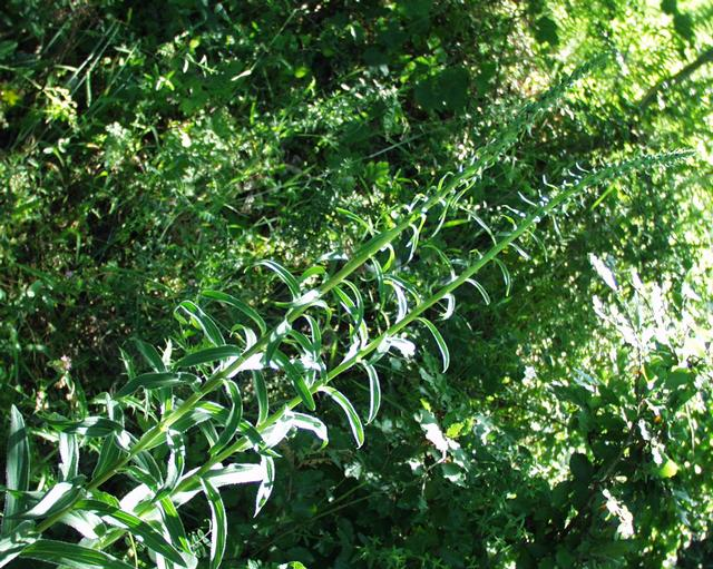 (en)Digitalis micrantha, a photography originating of the internet site The accord of the autor, H. Brisse, is here. (fr)Digitale du Sud (Digitalis micrantha), une photographie issue du site internet L'accord de l'auteur, H. Brisse, se situe ici. (it)Digitale appenninica